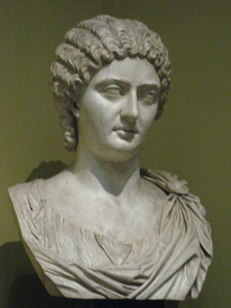 Cast in Pushkin Museum, after original in Vatican Museums, of a princess of the severian period, possibly Julia Maesa or her daughter Julia Soaemias, Elagabalus' mother. Around 210/230 AD. The original of tis bust stands in the "Sala Rotonda" (Round Hall) in the Museo Pio-Clementino (Vatican Museums).